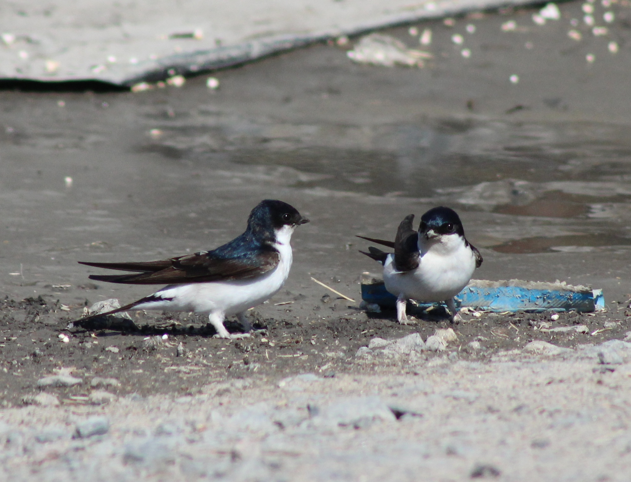 House Martins (Delichon urbicum) gathering mud for their nests in Toppila, Oulu.